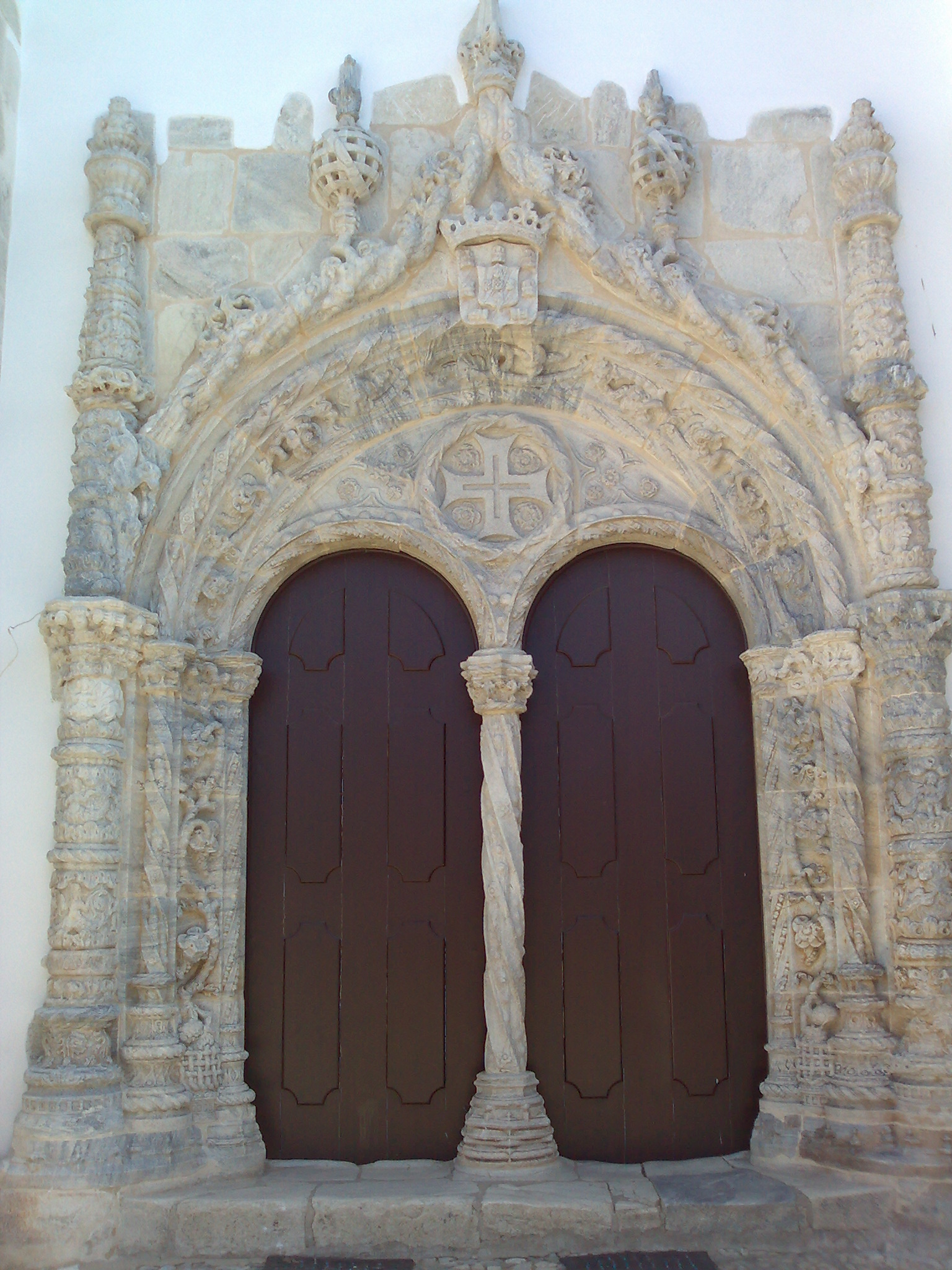 Church in Viana do Alentejo, Portugal